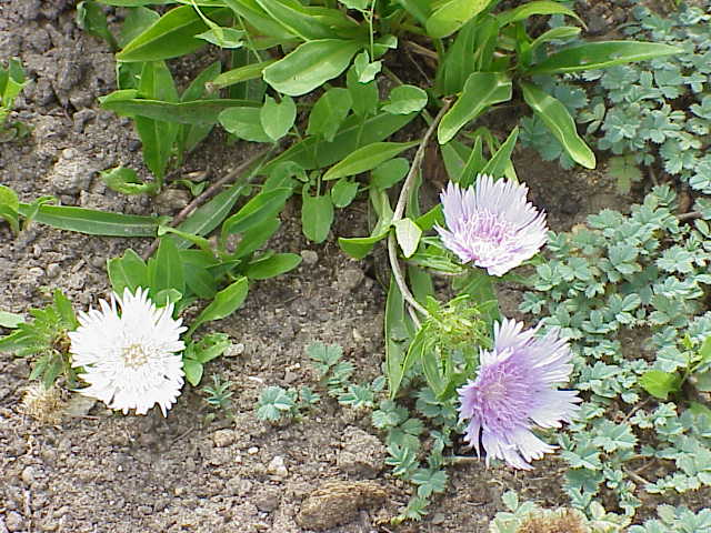 Species: Stokesia laevis Family: Compositae Image No. 3